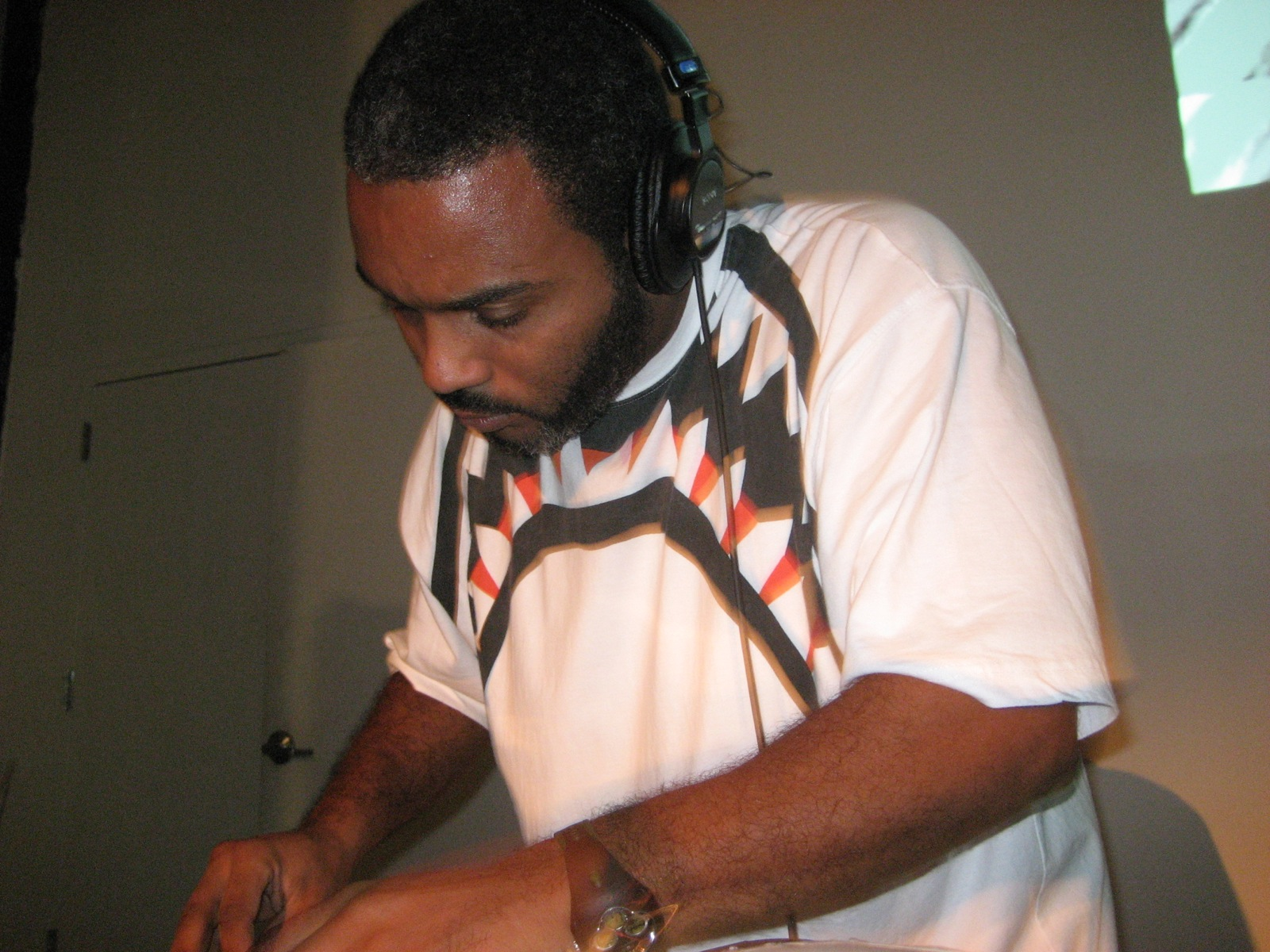 Large Professor, american rapper and producer.